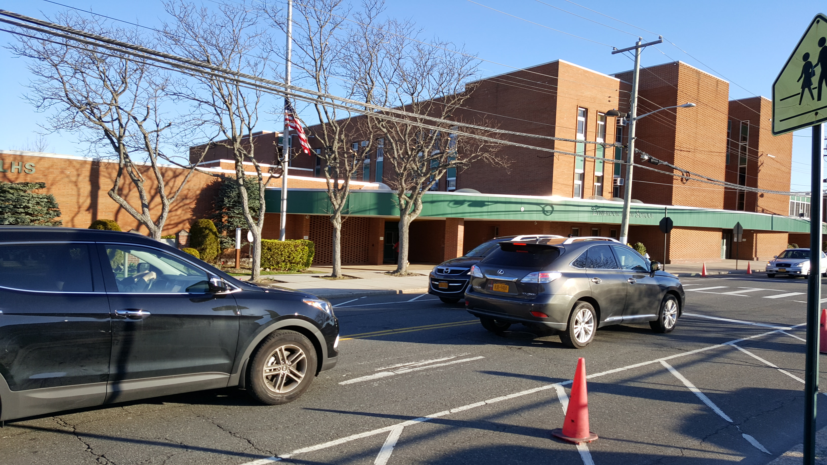 The entrance of Lynbrook senior highschool